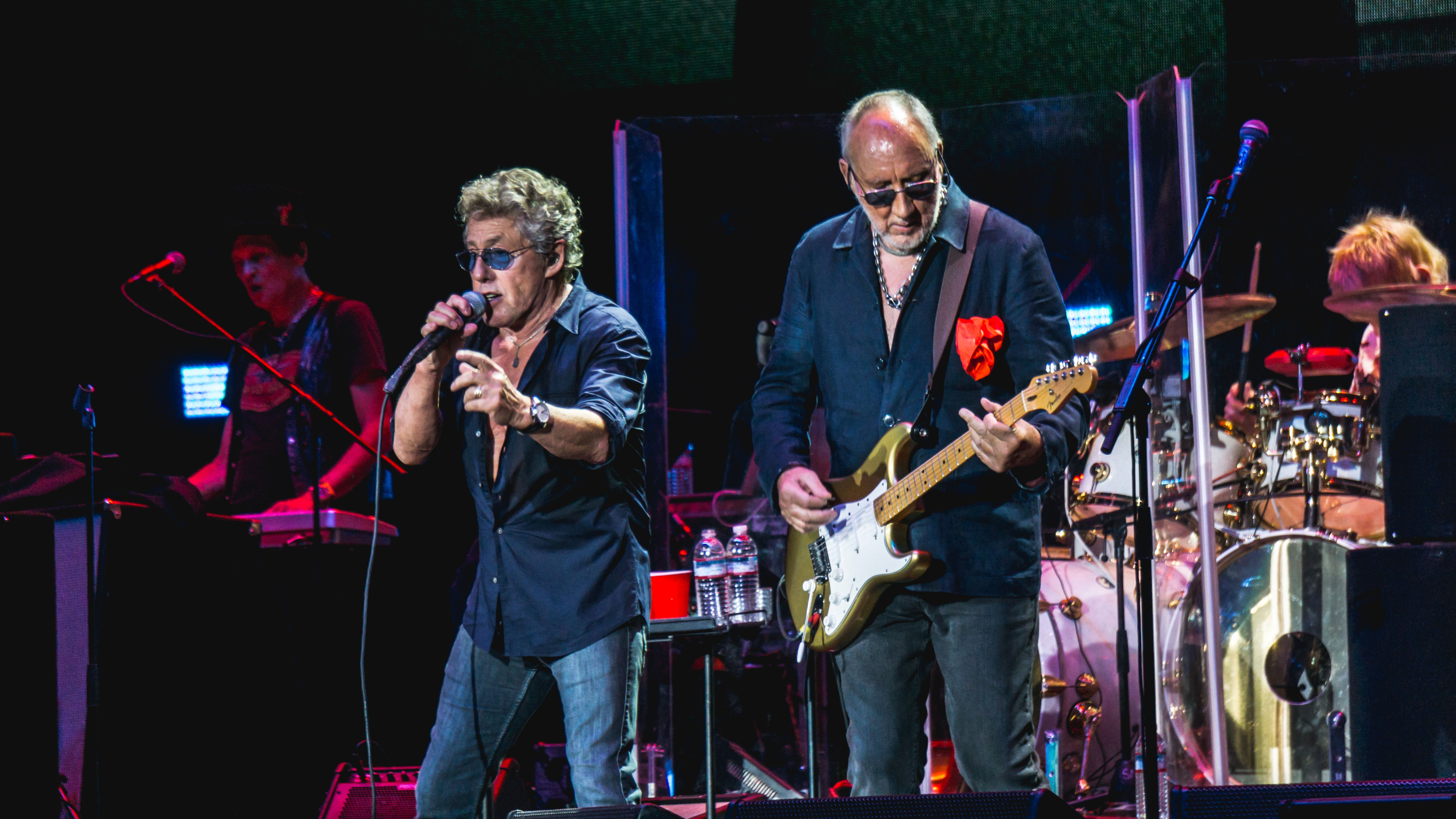 A performance by the Who on October 9, 2016 from the music festival Desert Trip, held at the Empire Polo Club